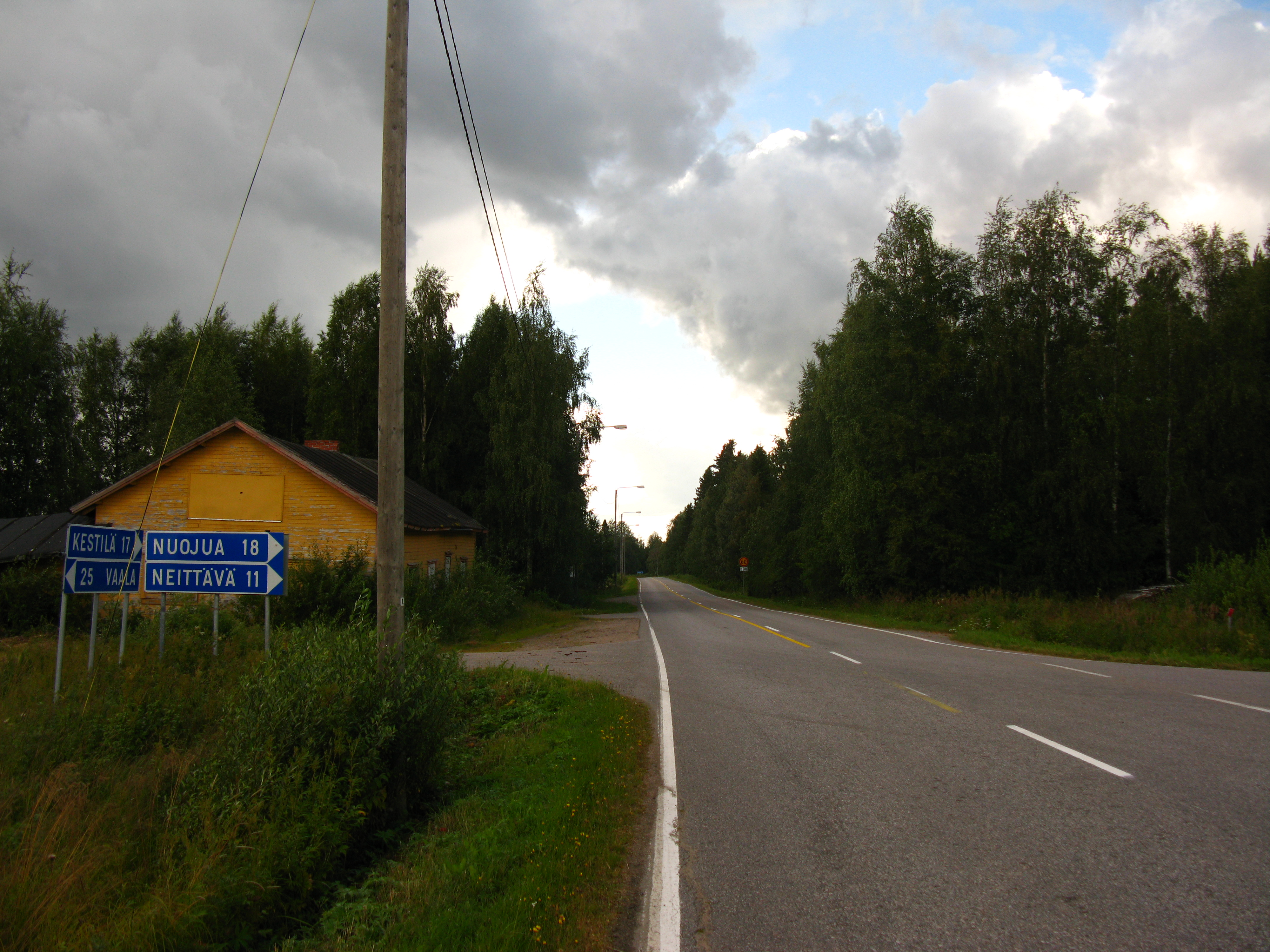 The Veneheitto Village in Vaala, Finland, at the crossing of the regional road 800 and the conneting road 8794.